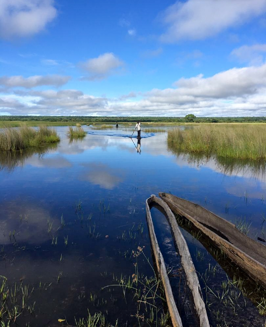 Although there are dirt roads for transportation via vehicles, locals also prefer to travel in hand made canoes and enjoy the view and calm of the zambian air. This is an image with the theme "Africa on the Move or Transport" from: Zambia